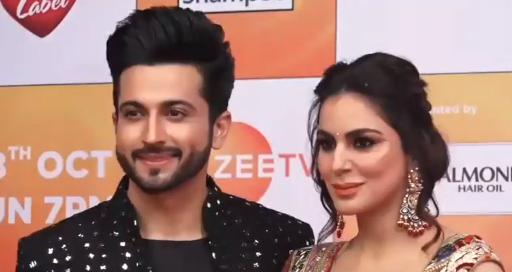 Dheeraj Dhoopar and Shraddha Arya at Zee Rishtey Awards 2018